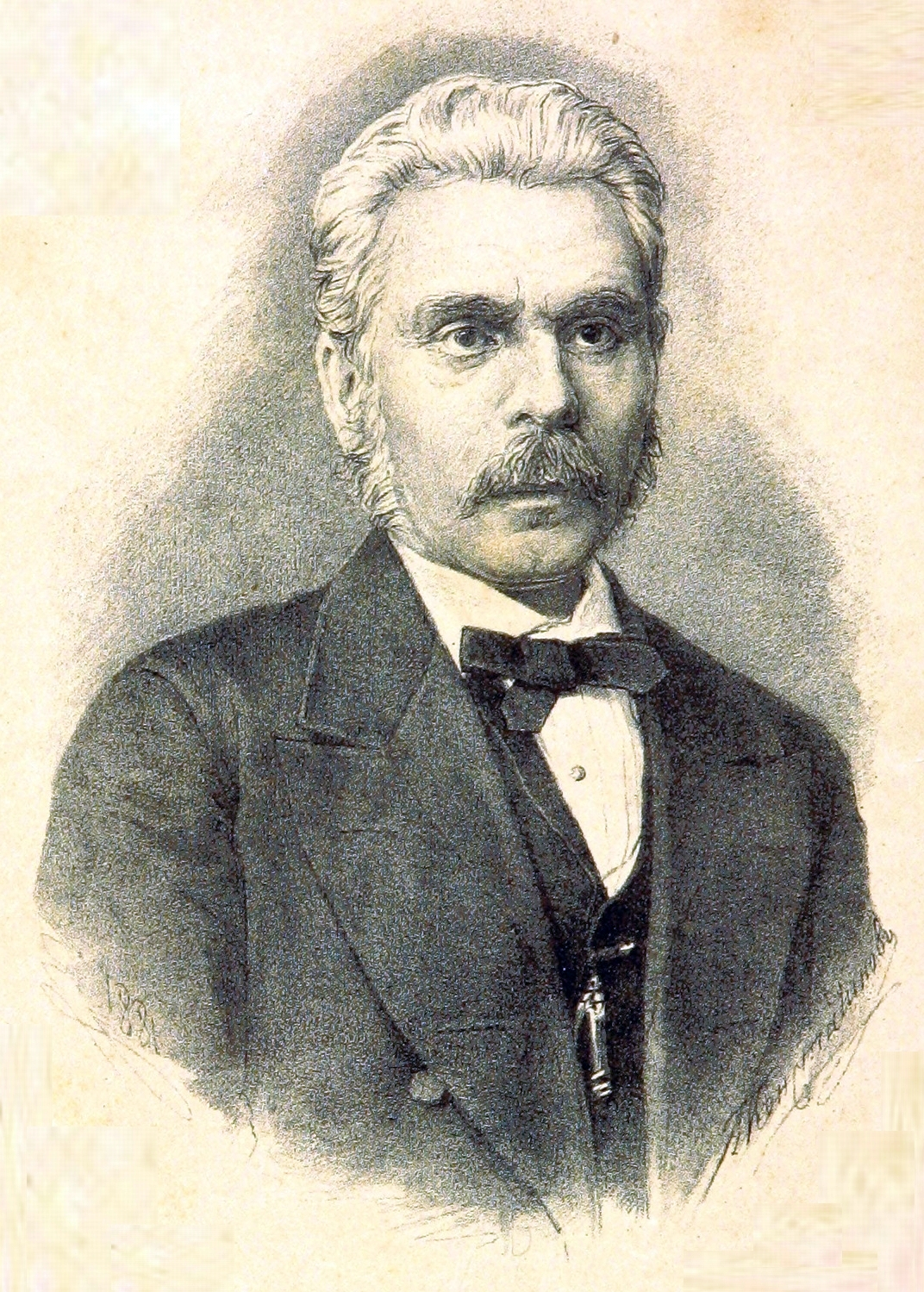 Blagosvetlov Grigorij Evlampievich (1824-1880), Russian journalist